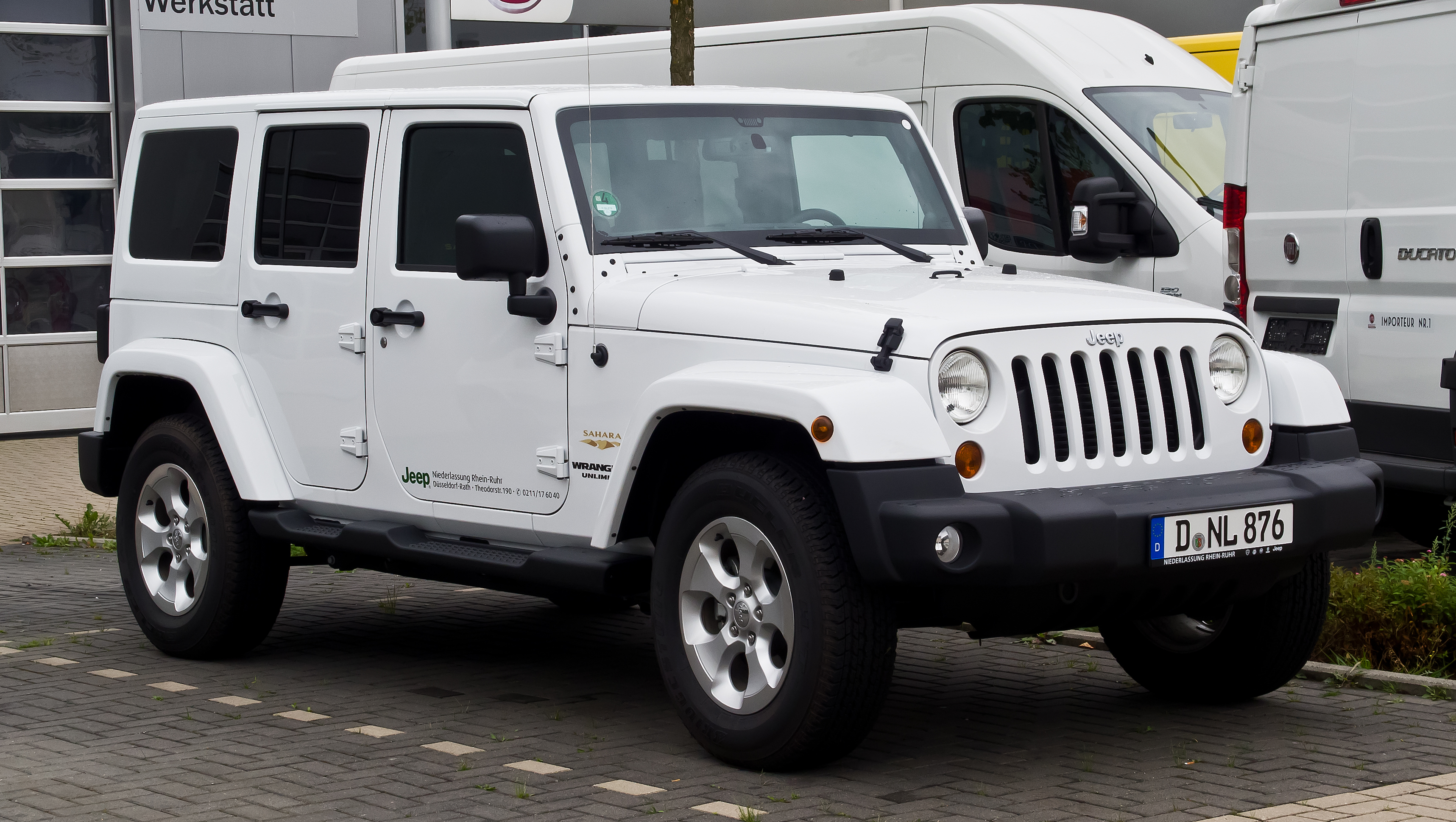 Jeep Wrangler Unlimited 2.8 CRD Sahara (JK)